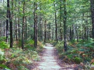 Français